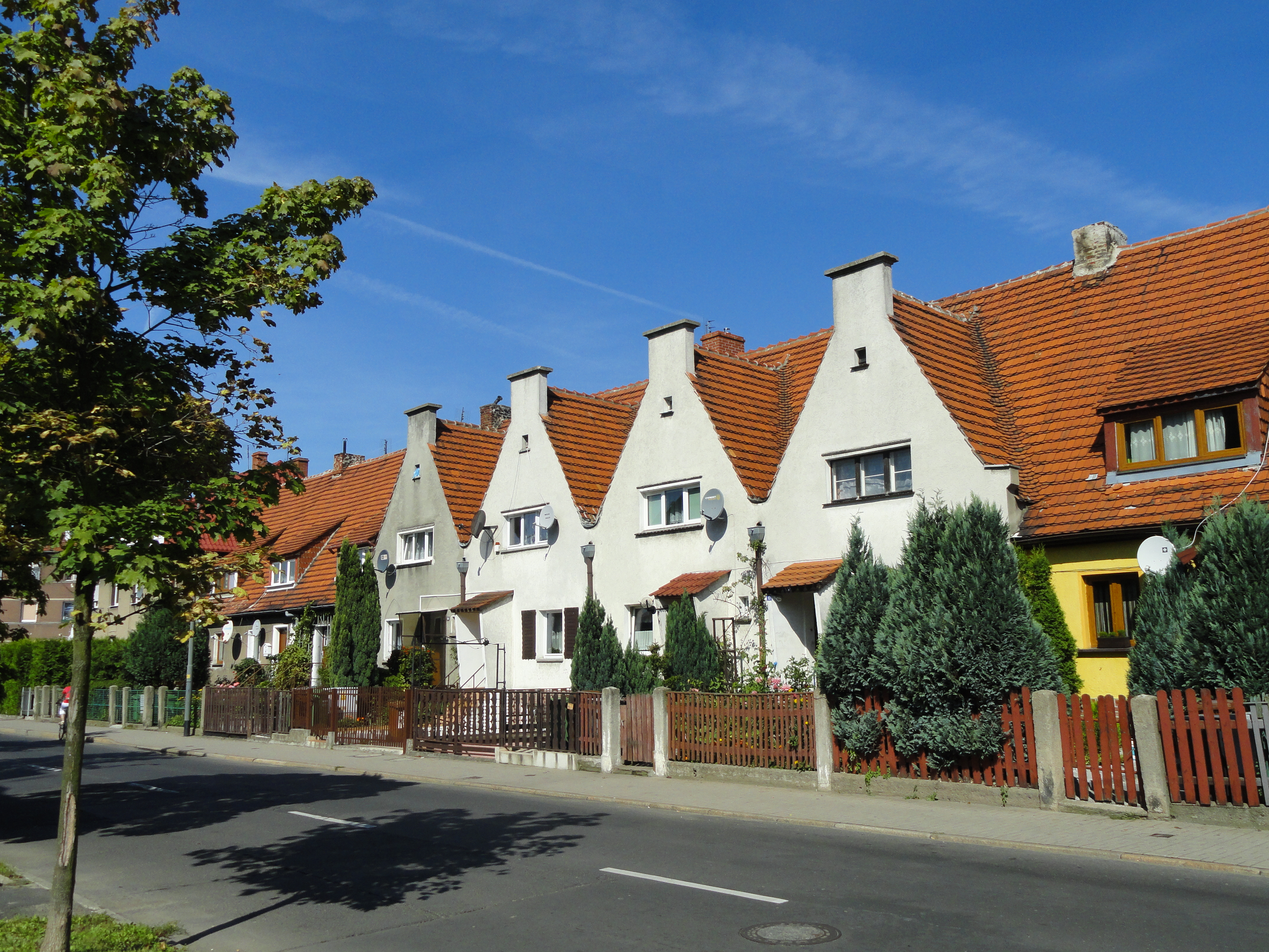 Row houses at the Romualda Traugutta Street in Zgorzelec